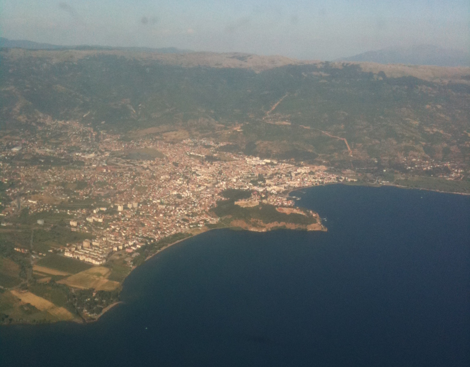 Ohrid from an airplane